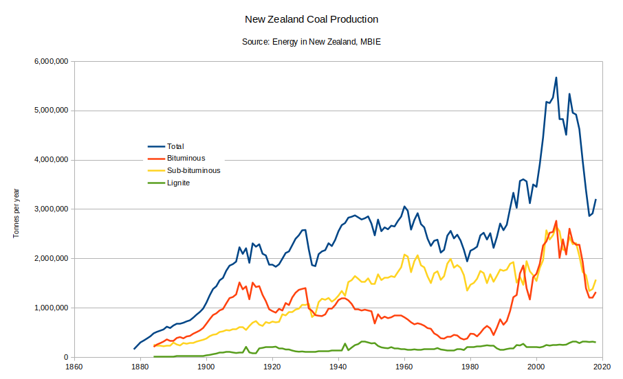 Graph of New Zealand Coal Production